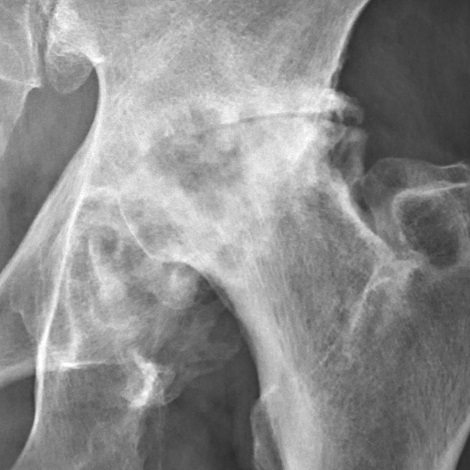 Projectional radiography of the left hip of a 65 year old man with pain upon hip movement. It shows severe (Tönnis grade 3) osteoarthritis.